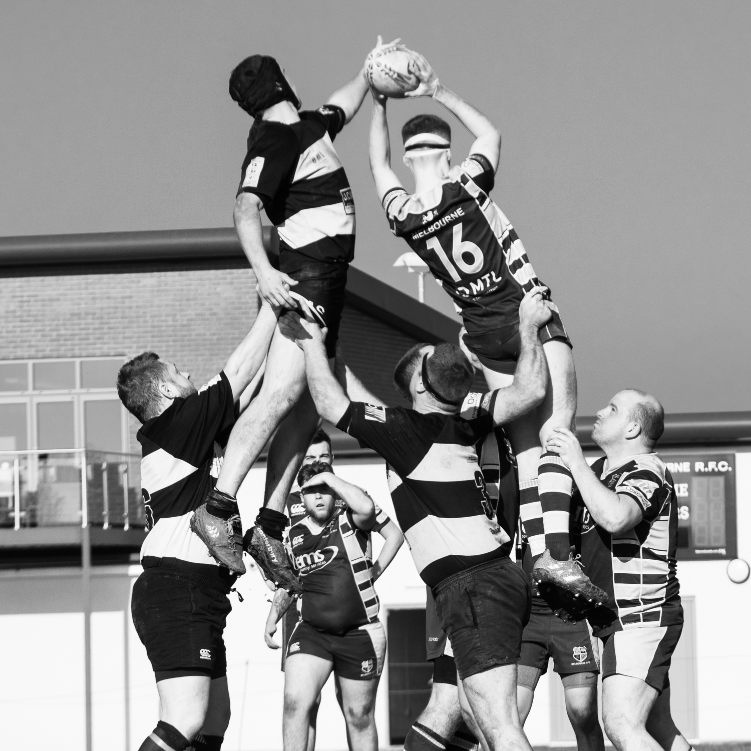 A game of rugby played by Melbourne Rugby Football Club, Derbyshire, UK